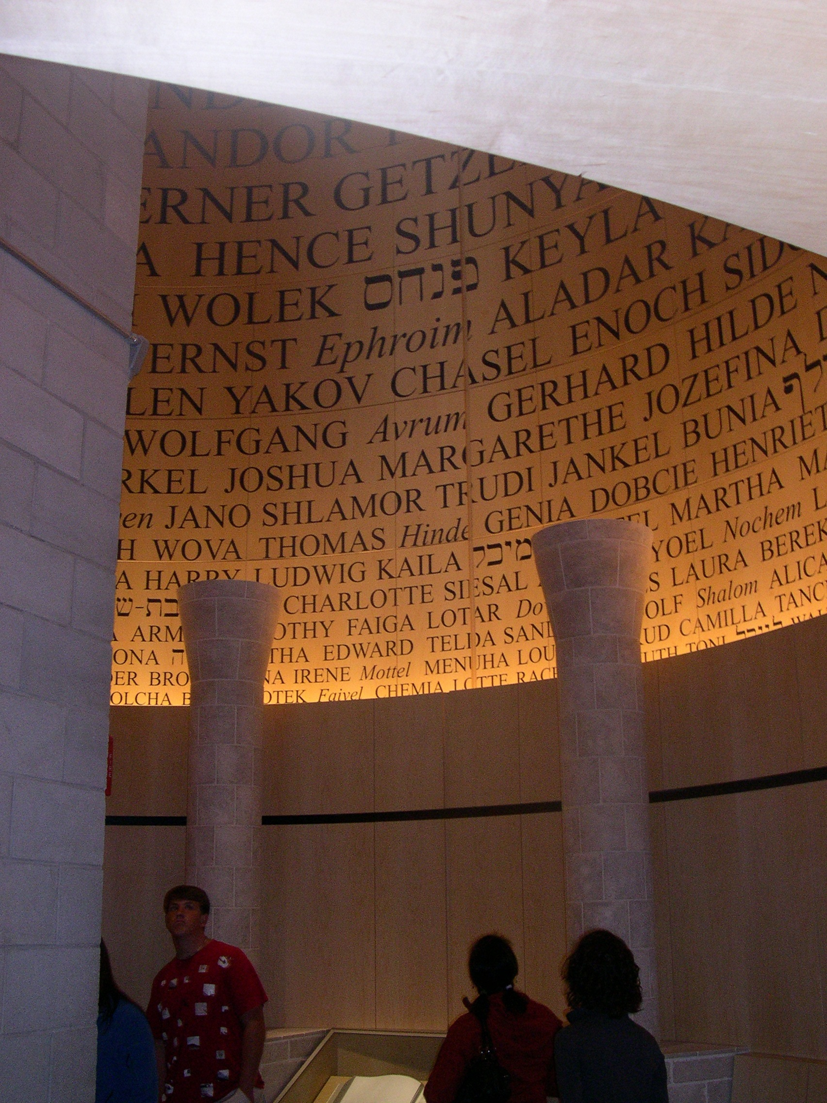 Illinois Holocaust Museum and Education Center, Room of Remembrance